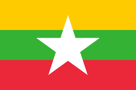 Flag of Myanmar This is a retouched picture, which means that it has been digitally altered from its original version. Modifications: Unified for the national flags serie, borders removed, high compression ratio, some color or ratio corrections from